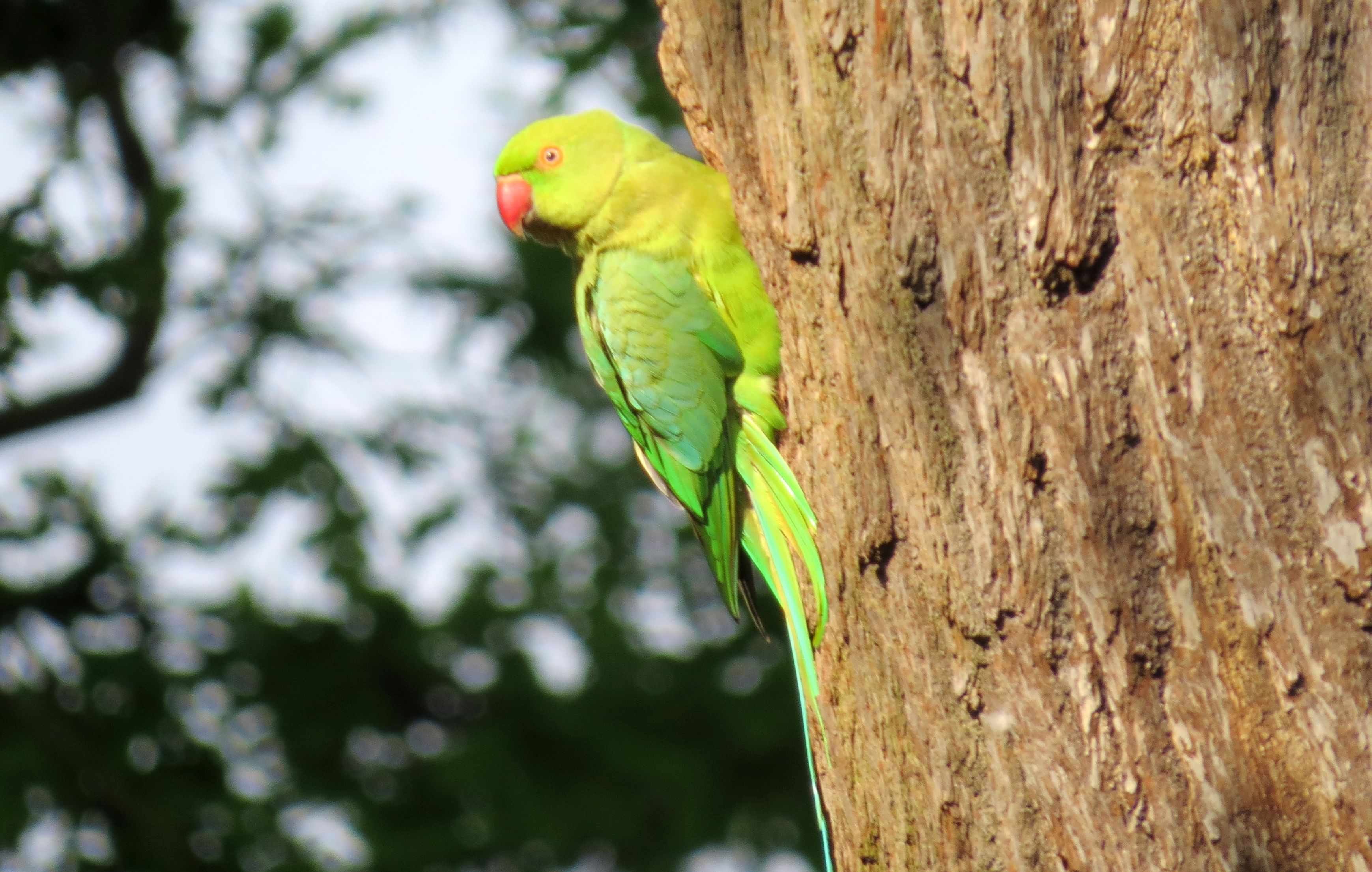 Rose-ringed parakeet in the Richmond Park spring 2020.